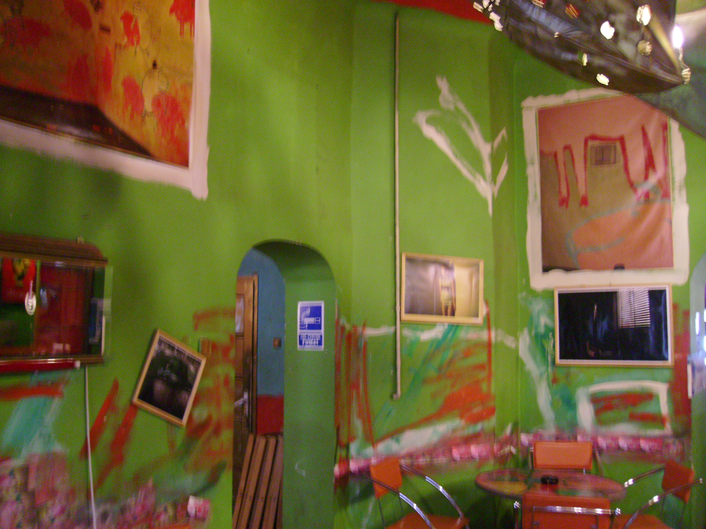 Art Bar in Cluj, Corner of a bar in Cluj-Napoca Location: Cluj-Napoca